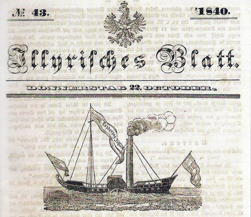 Illyrisches_Blatt newspaper front page of edition 32